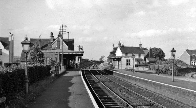 Barcombe Mills Station, Near to Barcombe, East Sussex, Great Britain. View northward, towards Uckfield, Eridge, Tunbridge Wells and London. The station and the line were closed Uckfield - Lewes on 4/5/69, but there is a persistent movement to have the line reopened, although the route was blocked years ago by the Lewes by-pass.